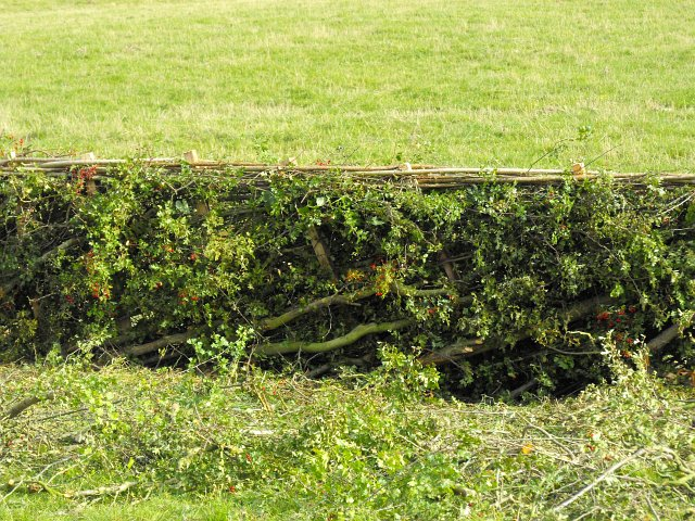 Hedging competition (3) I'm not sure what this style is called but it has a very neat pleached top.